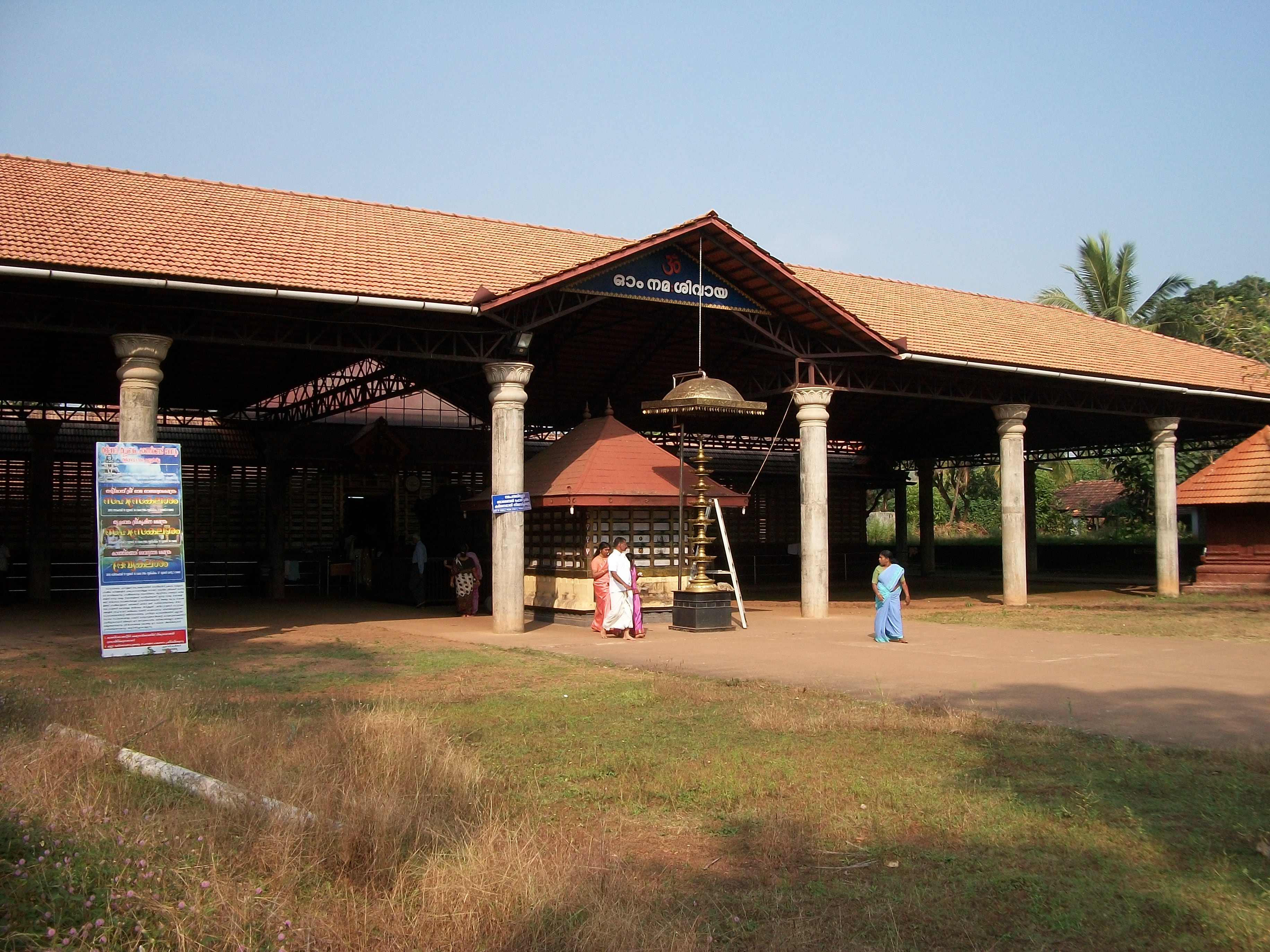 Rajarajeshwara Temple temple located at Taliparamba